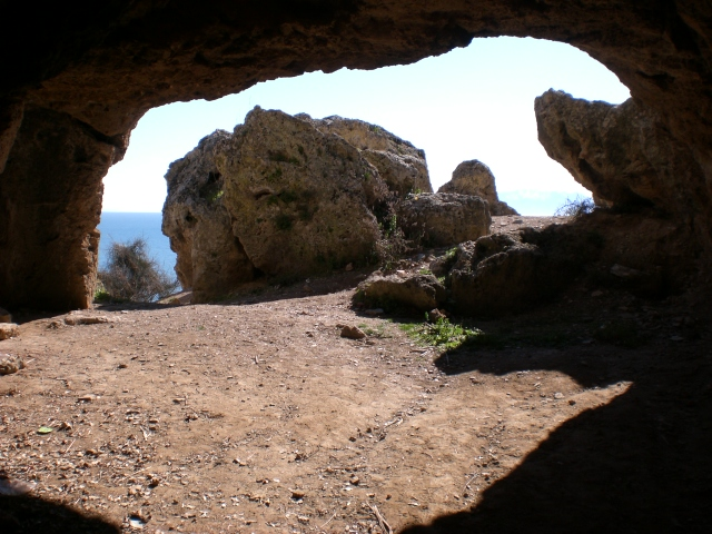 Photo of cave, known in the village as Cyclops Cave, Makri, Evros, Greece